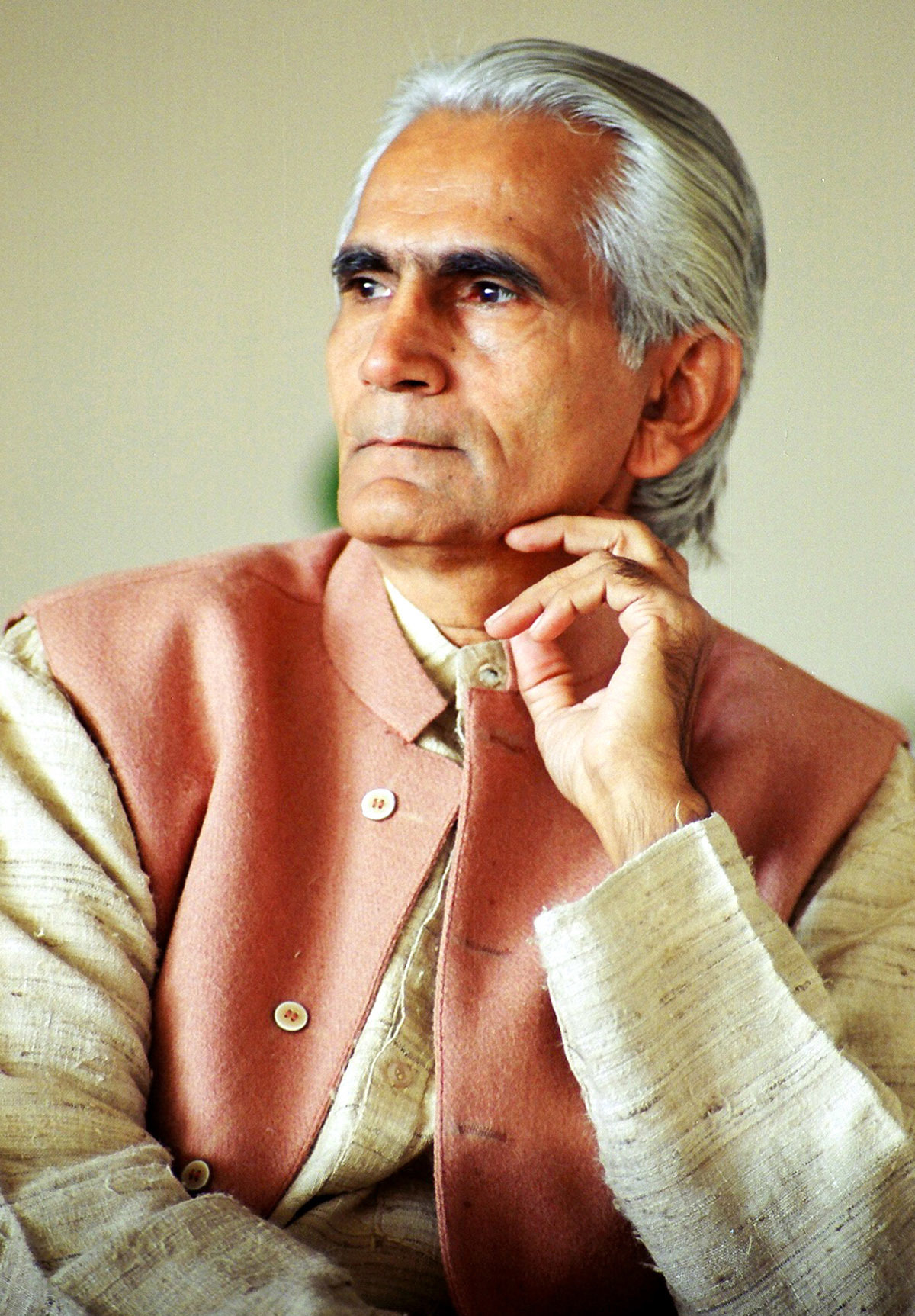 Raghuvir Chaudhari at Mumbai, 1999